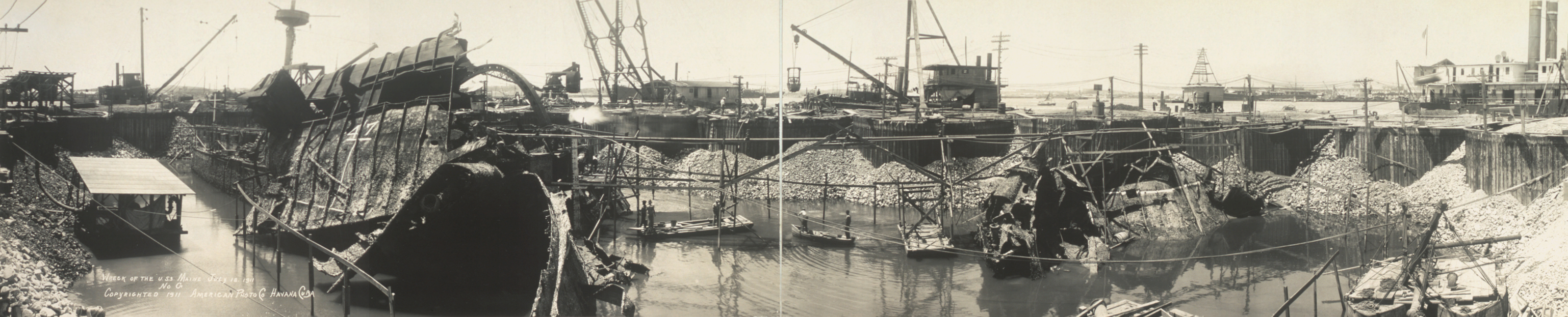 Panoramic view of the wreck of the USS Maine in Havana Harbor, Cuba, in 1912. The view is toward the bow. The bow was completely destroyed, and consisted mostly of wreckage on the ocean floor. Most of what is visible in the photograph is the central third of the ship, which was severely damaged and detached from the rest of the ship. But the center of the vessel retained a visible shape.